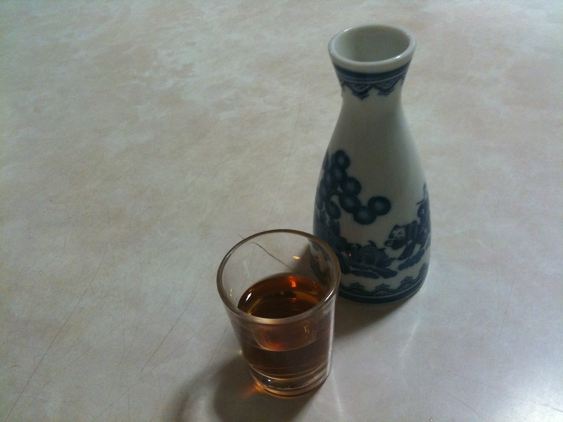 Shaoxing Rice Wine, Huadiao, 10ys, bottle and glass